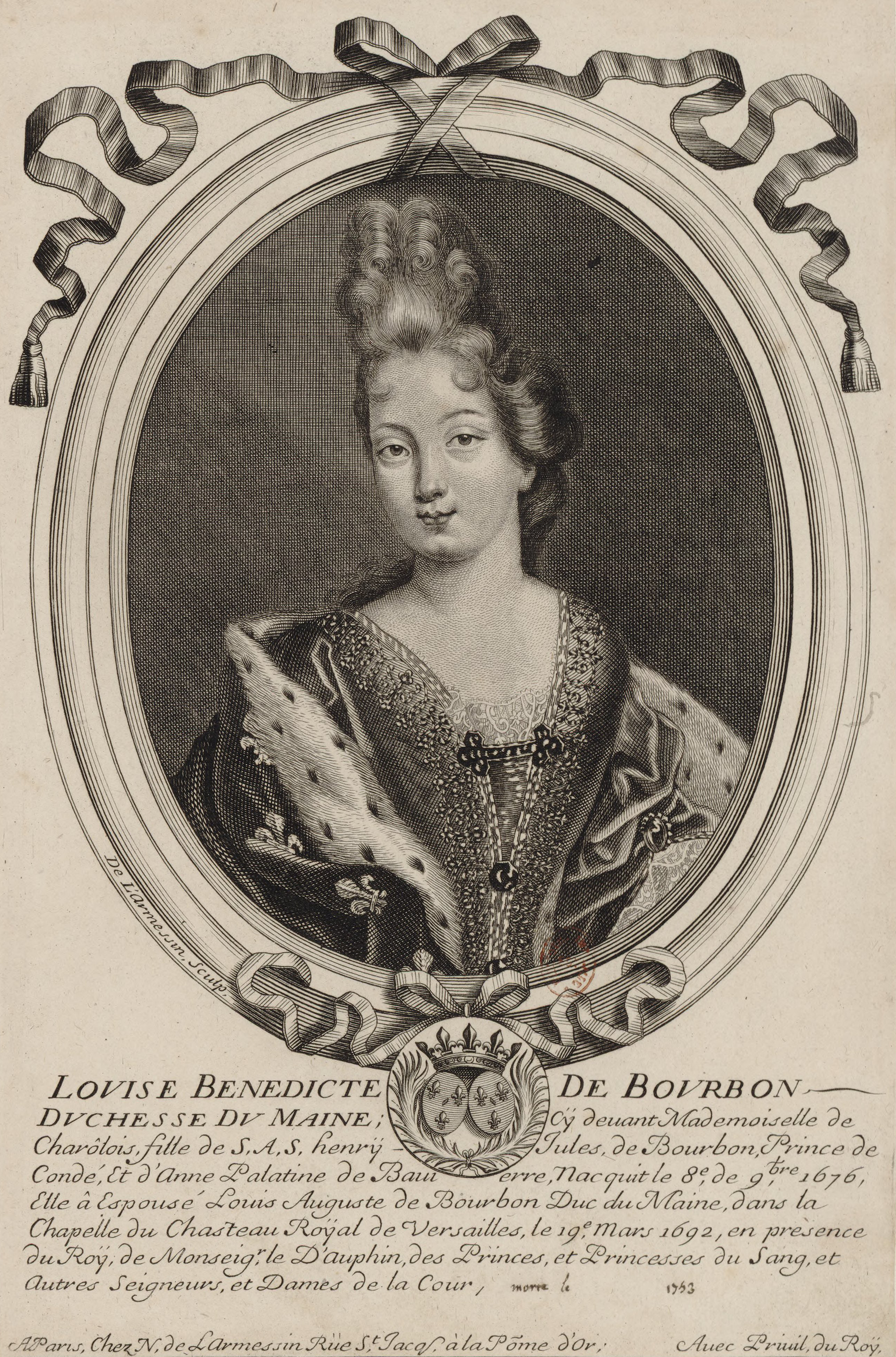 Engraving of the Duchess of Maine, by Larmessin (I), Nicholas, Paris